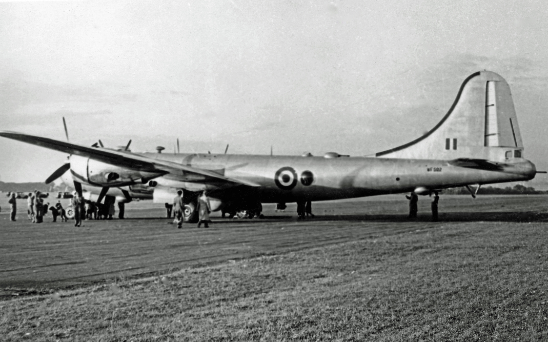 Boeing B-29A Washington B.1 of 90 Squadron Royal Air Force based at RAF Marham. Displayed at the 1952 Battle of Britain show at RAF Hooton Park, Cheshire. Ex 44-62231.